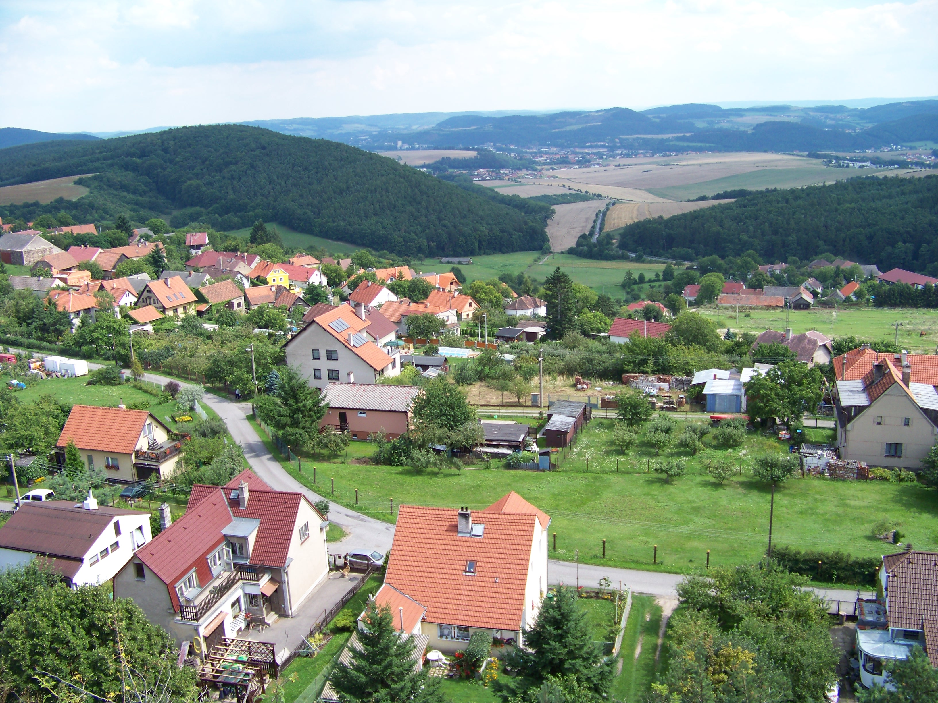 Svatá, Beroun District, Central Bohemian Region, the Czech Republic. A view of Svatá from Svatá Rock.